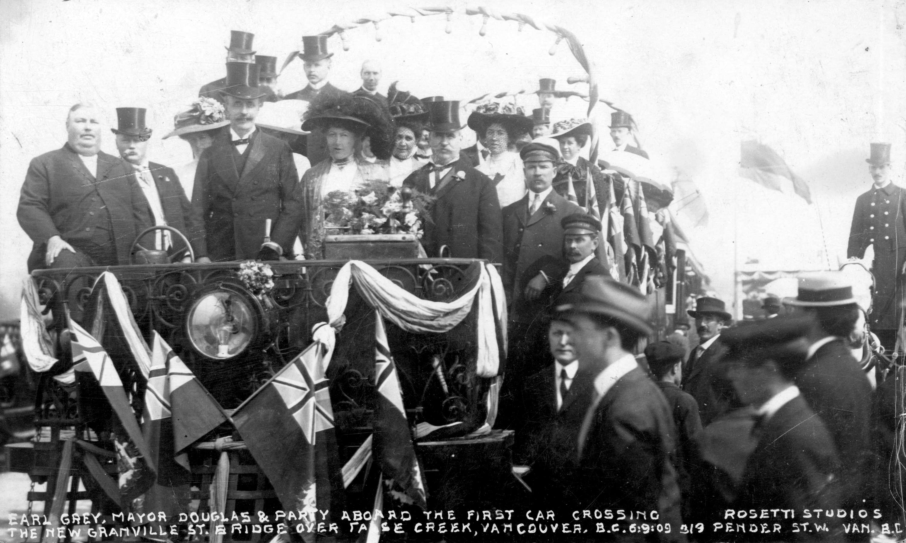 Governor-General Earl Grey, Mayor Douglas & Party Aboard the First Car Crossing the New Granville St. Bridge over False Creek, Vancouver, Canada.